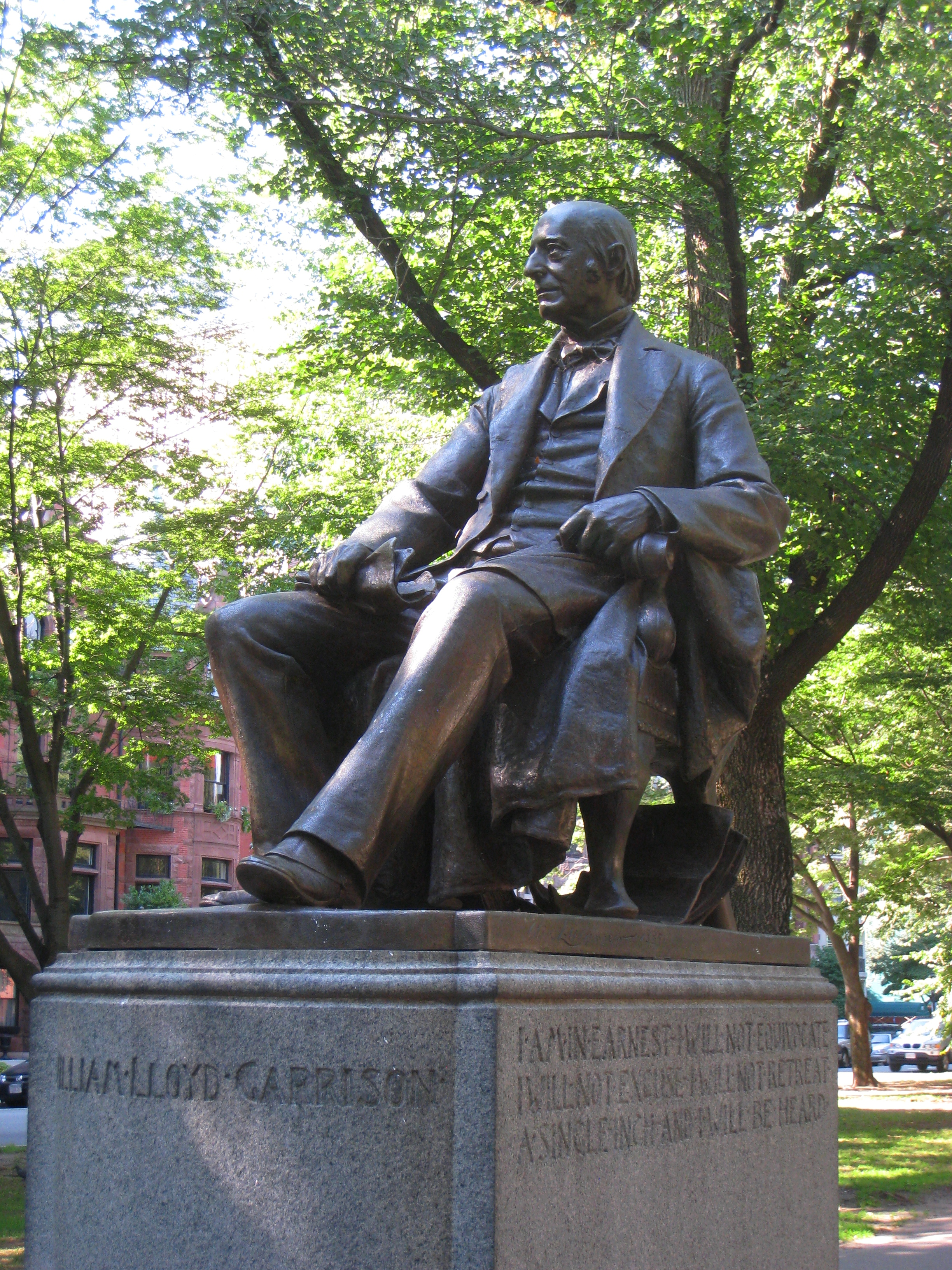 Statue of William Lloyd Garrison by Olin Levi Warner (1844-1896), located on Commonwealth Avenue, Boston, Massachusetts, USA.